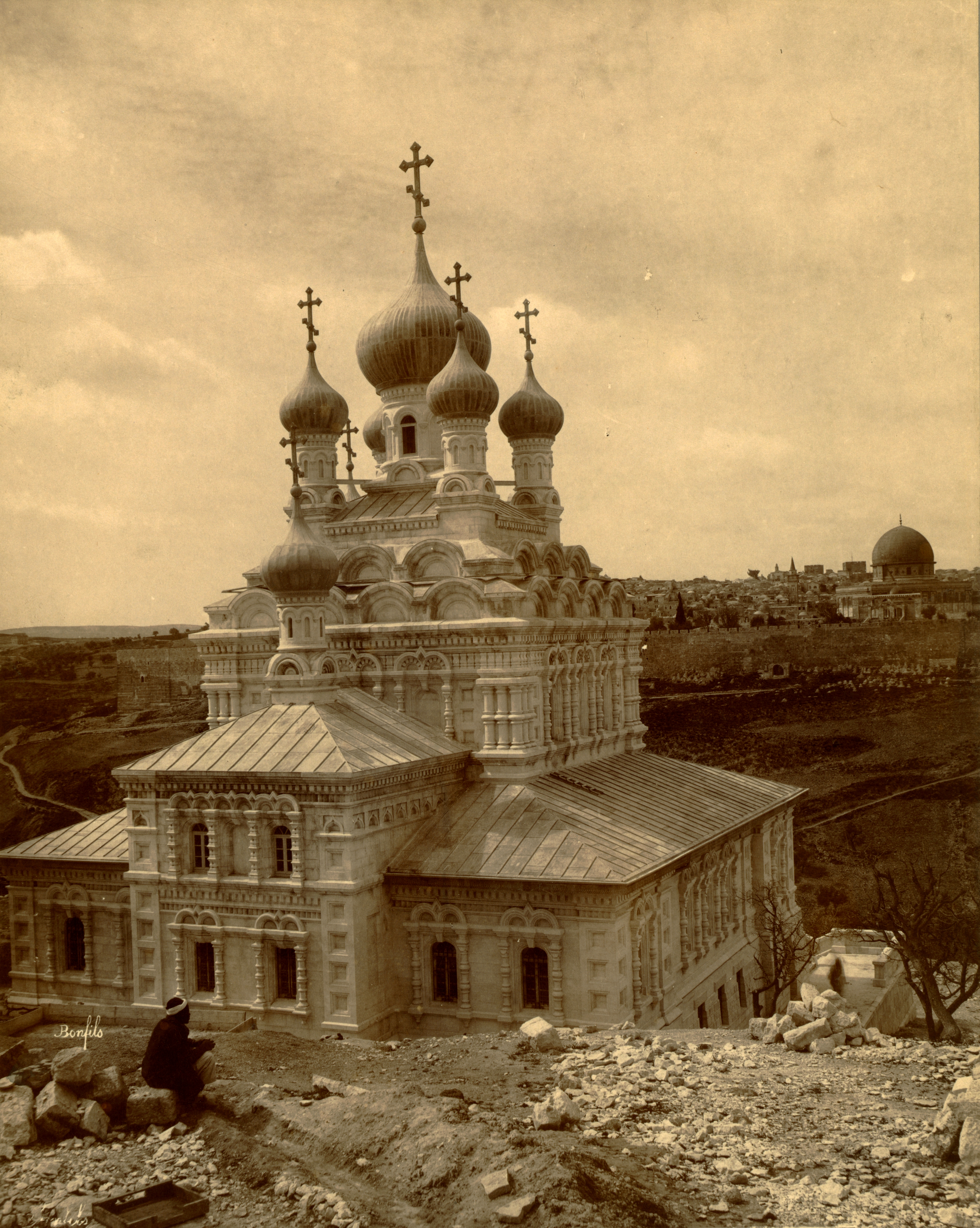 Eglise russe sur le mont des Oliviers Russian church on the mount of Olives / / Bonfils.